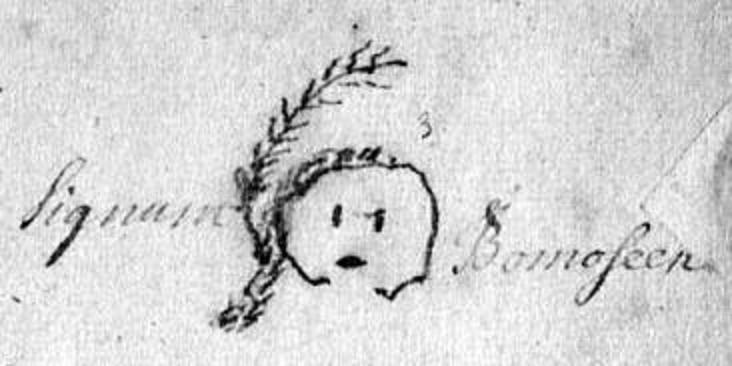 Pictograph of Bomoseen (or Bomazeen), Abenaki sachem, from the Treaty of Portsmouth (1713).